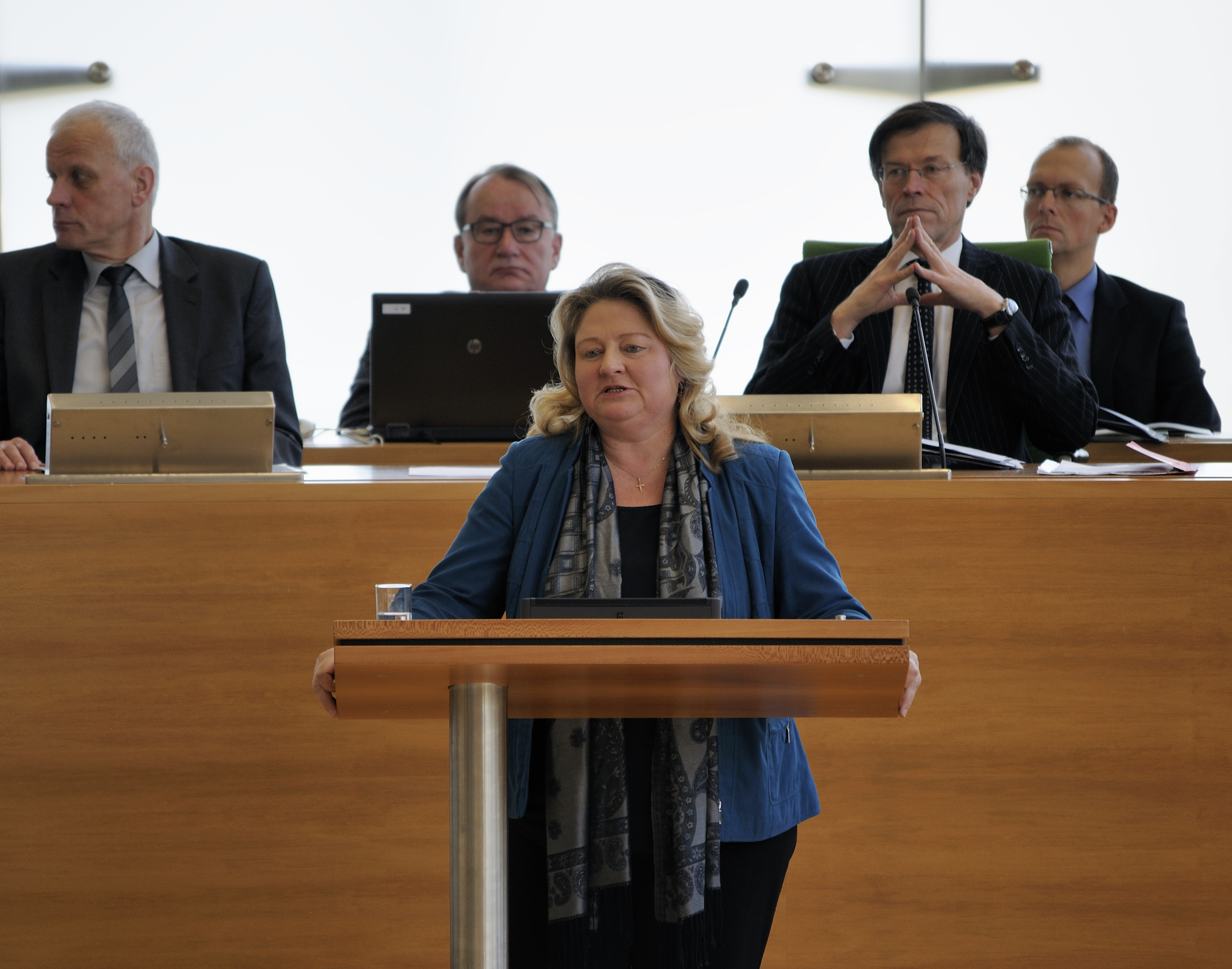 Antje Hermenau, Saxon politician (Bündnis 90/Die Grünen) and member of the Landtag of the Free State of Saxony (as of 2013).